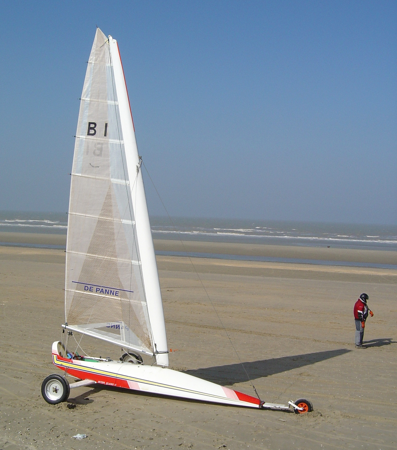 Land sailing in De Panne (Belgium) I took this picture in march 2006